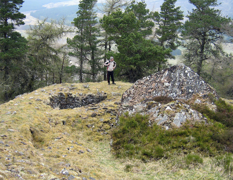 Part of the ruins of a Pictish fort in Laggan, Badenoch